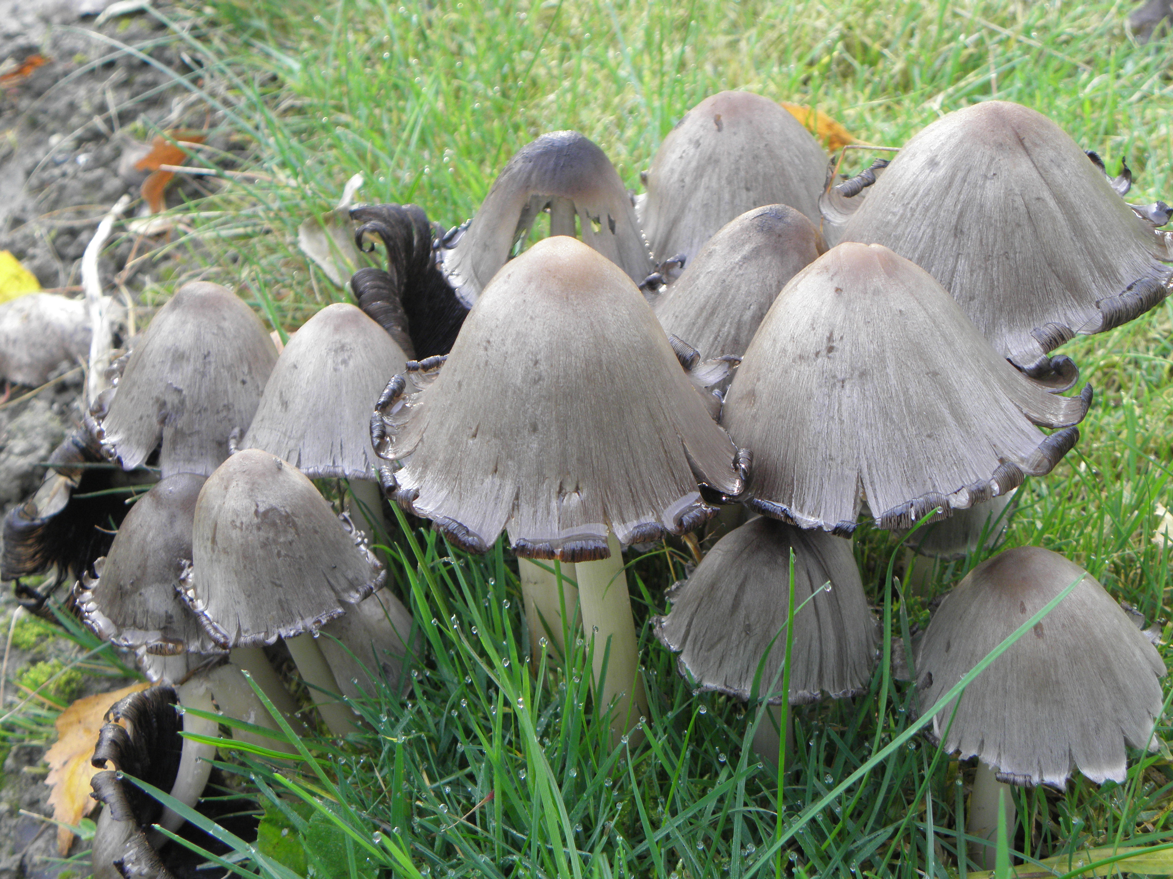 common ink cap